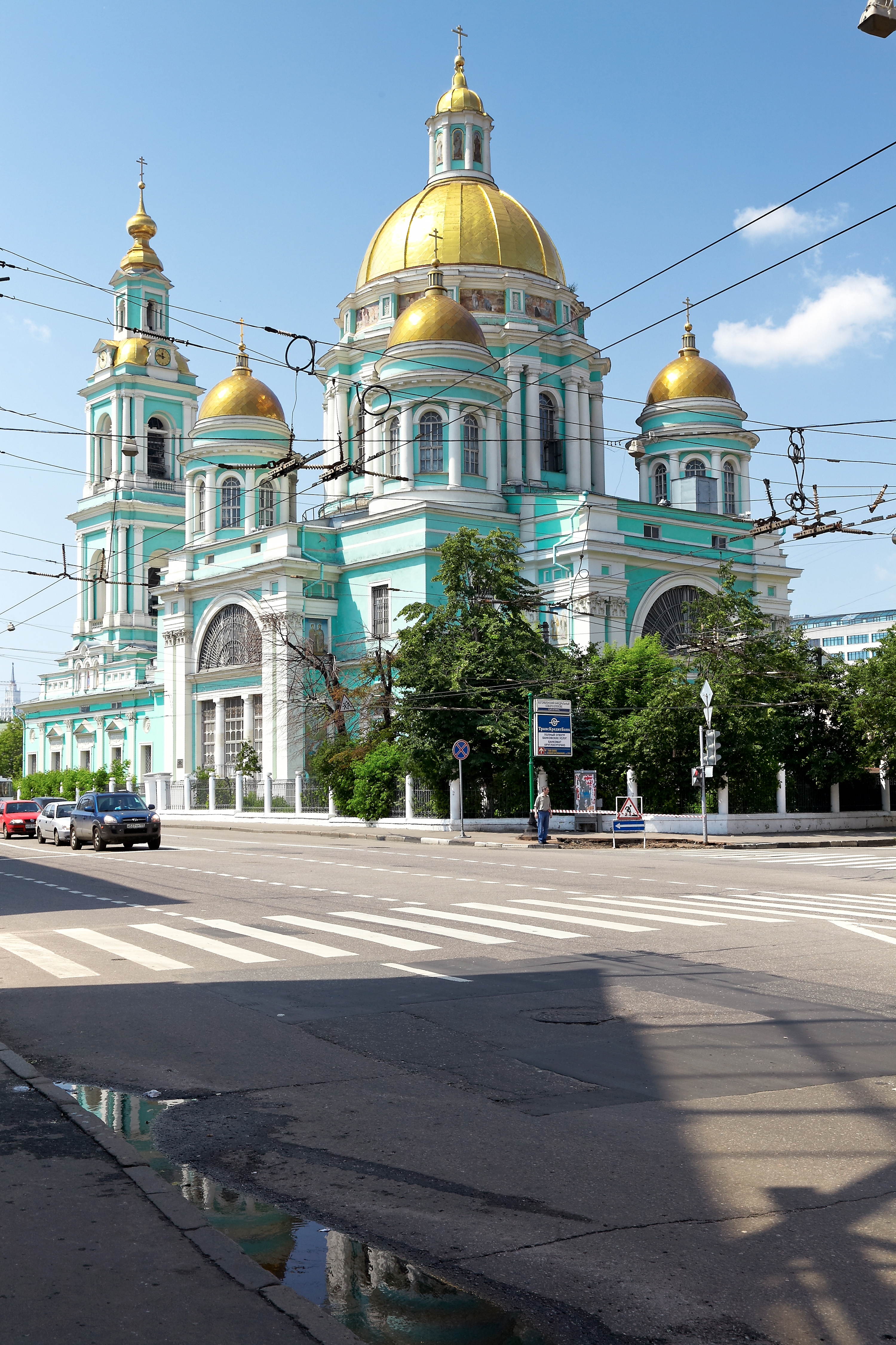 The Epiphany Cathedral at Yelokhovo WIKI